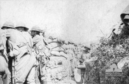 Russell's Top, Gallipoli. Members of the 9th Australian Light Horse Regiment standing to in the trenches. (Donor W. Scott)